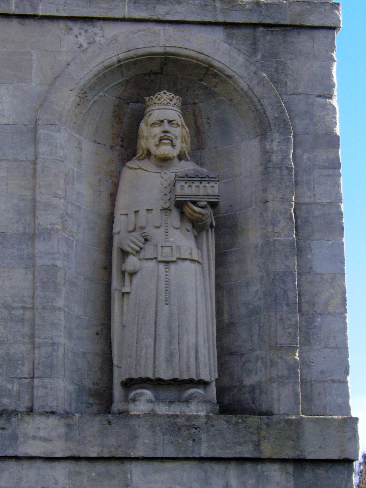 Statue on Arno's Court Triumphal Arch, Bristol. Taken by Rod Ward 19th March 2007